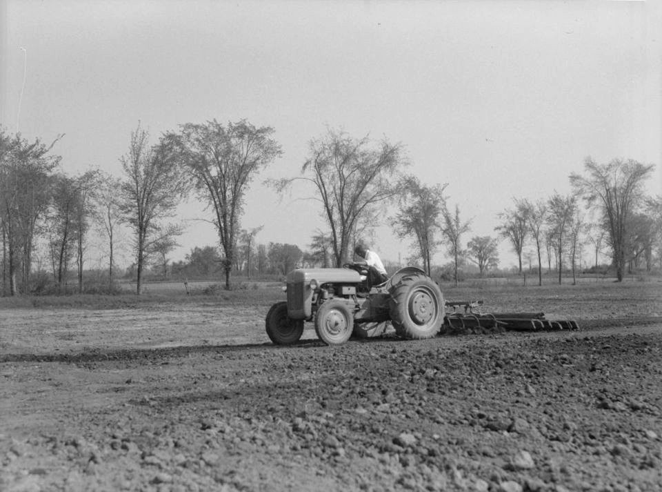 A farmer ofLaSalle loosens the earth with his tractor with a cultivator.